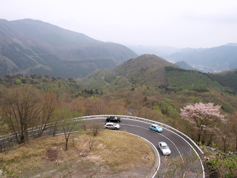 Japan: Irohazaka, in Nikkō (Tochigi prefecture).